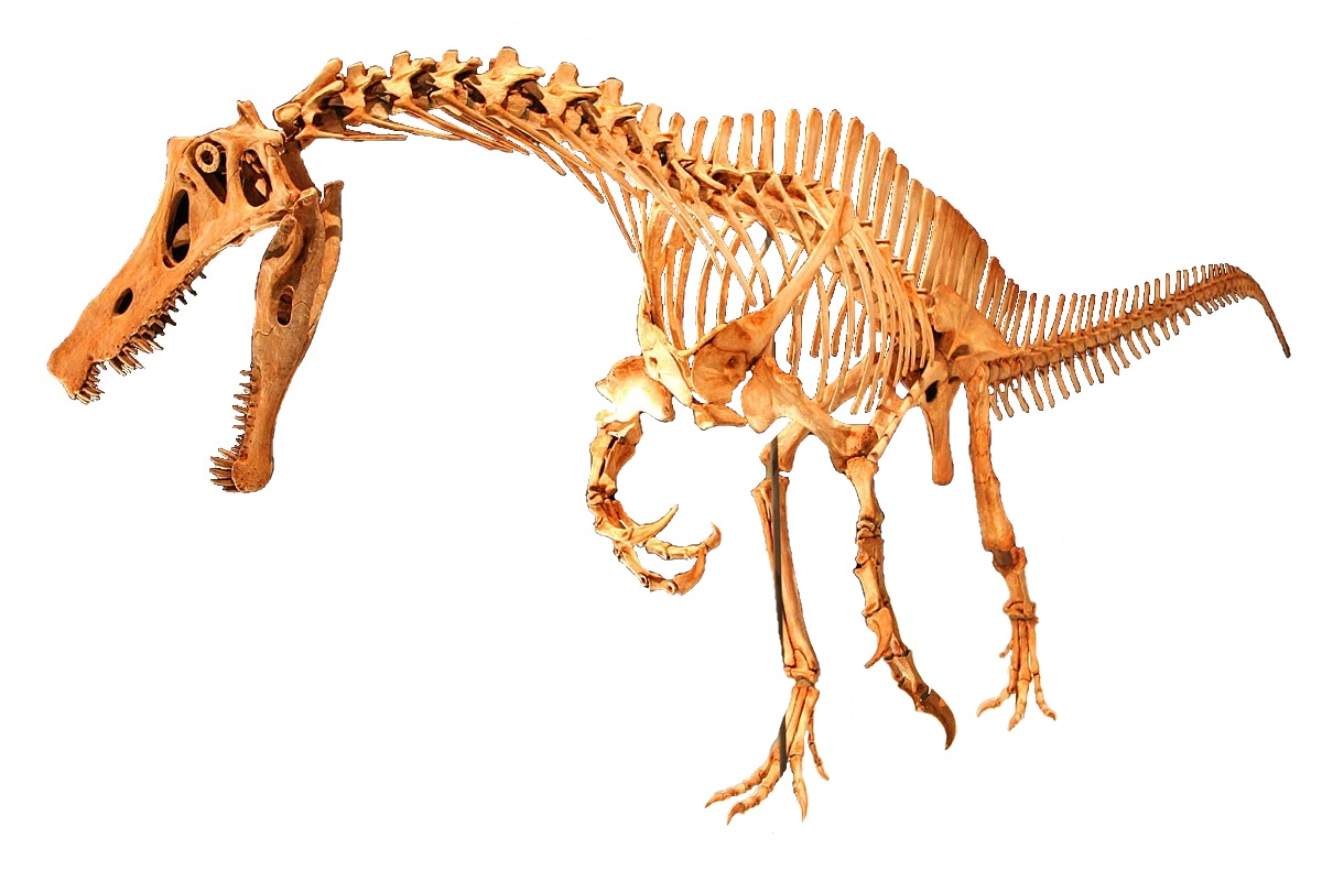 Reconstructed mount of Irritator challengeri (jr synonym = Angaturama)